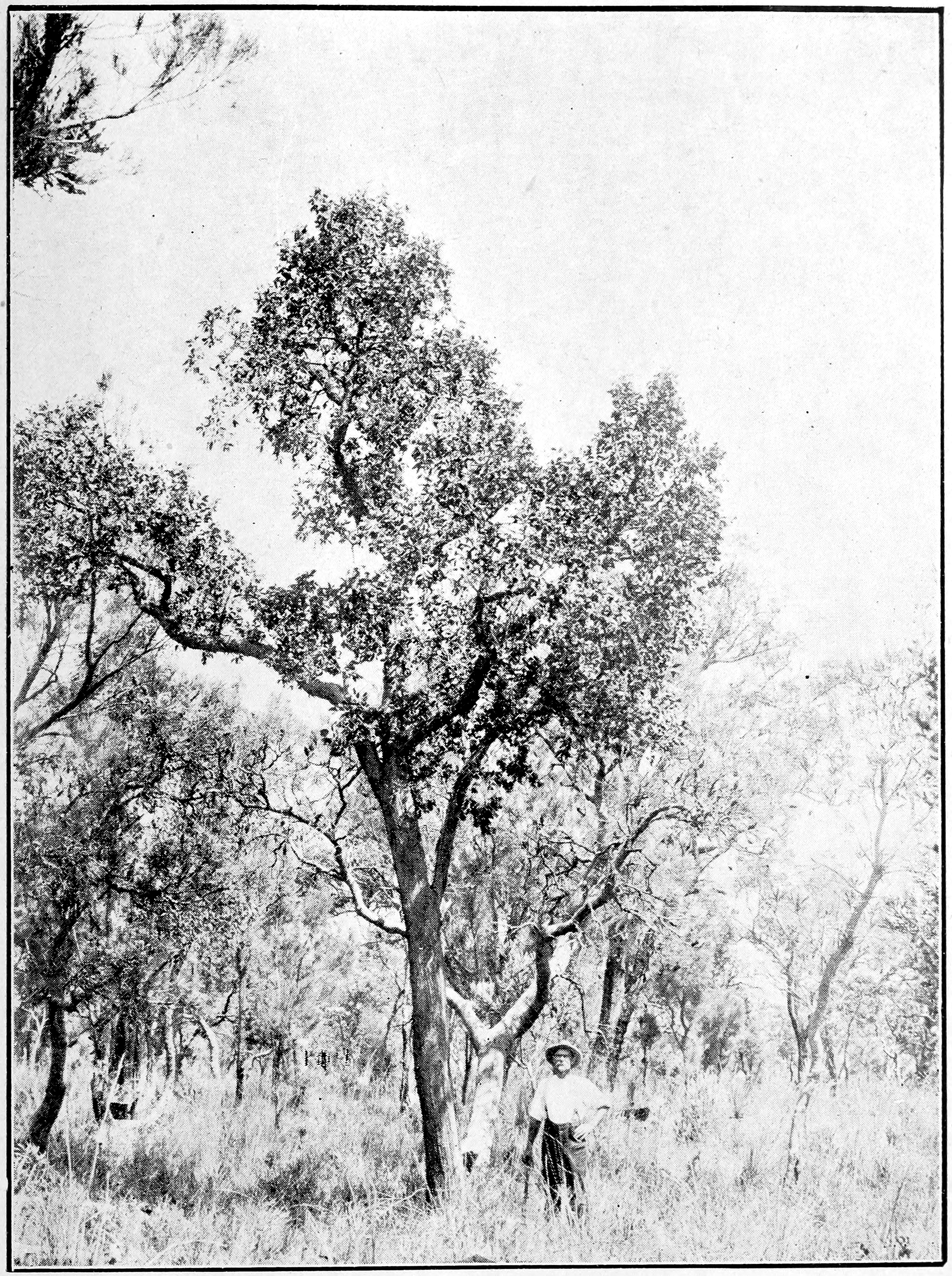 Photograph illustrating source, removed caption in title of image. Categorised by the systematic name given in text, or current synonym in taxonomy at commons.